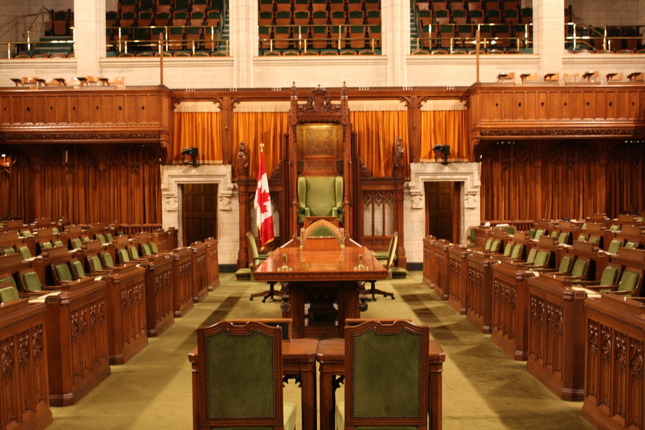 House of Commons, Parliament Hill, Ottawa, Canada